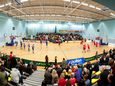 The Wright Robinson Sports College main sports hall